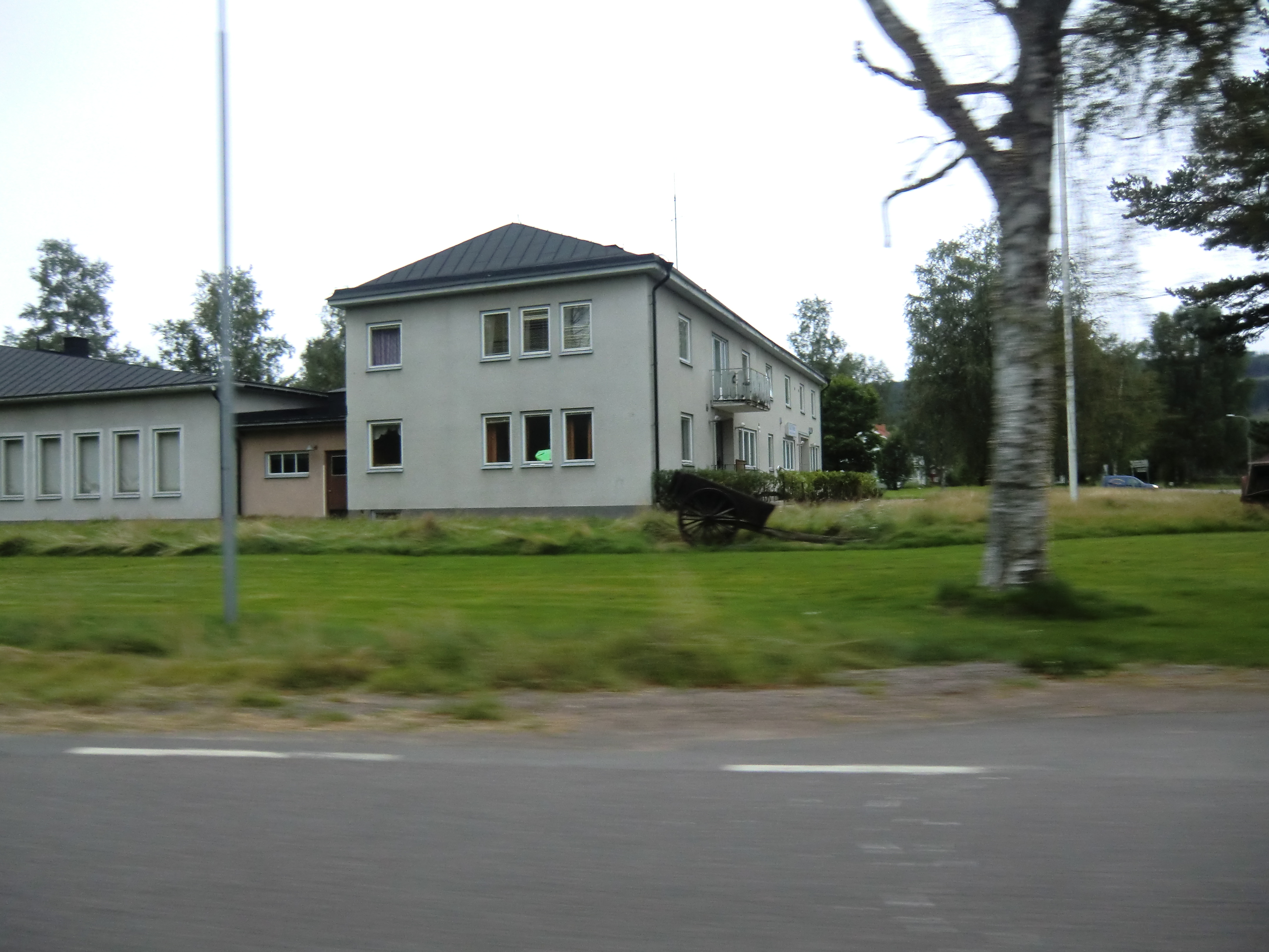 Old municipality house of Gräsmark.